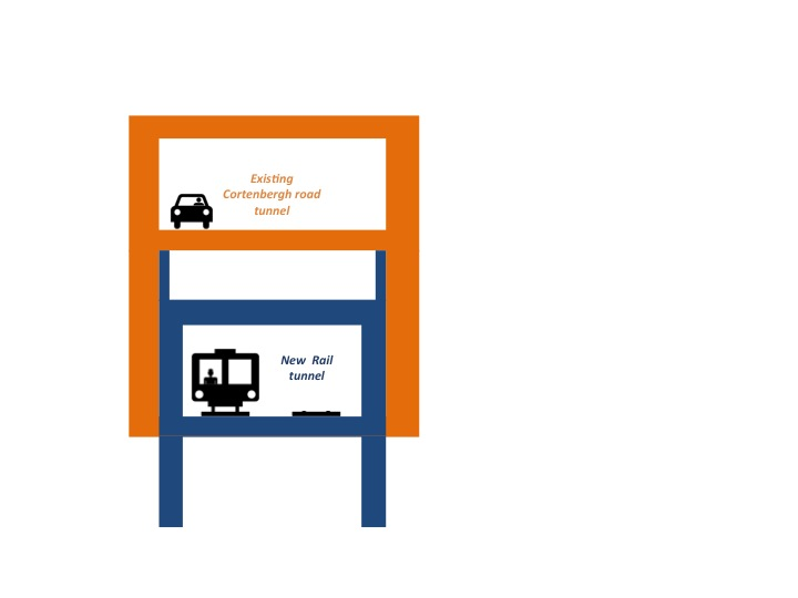 section view of Cortenbergh (aka Belliard) rail tunnel in Brussels, showing relation to existing road tunnelUnknown